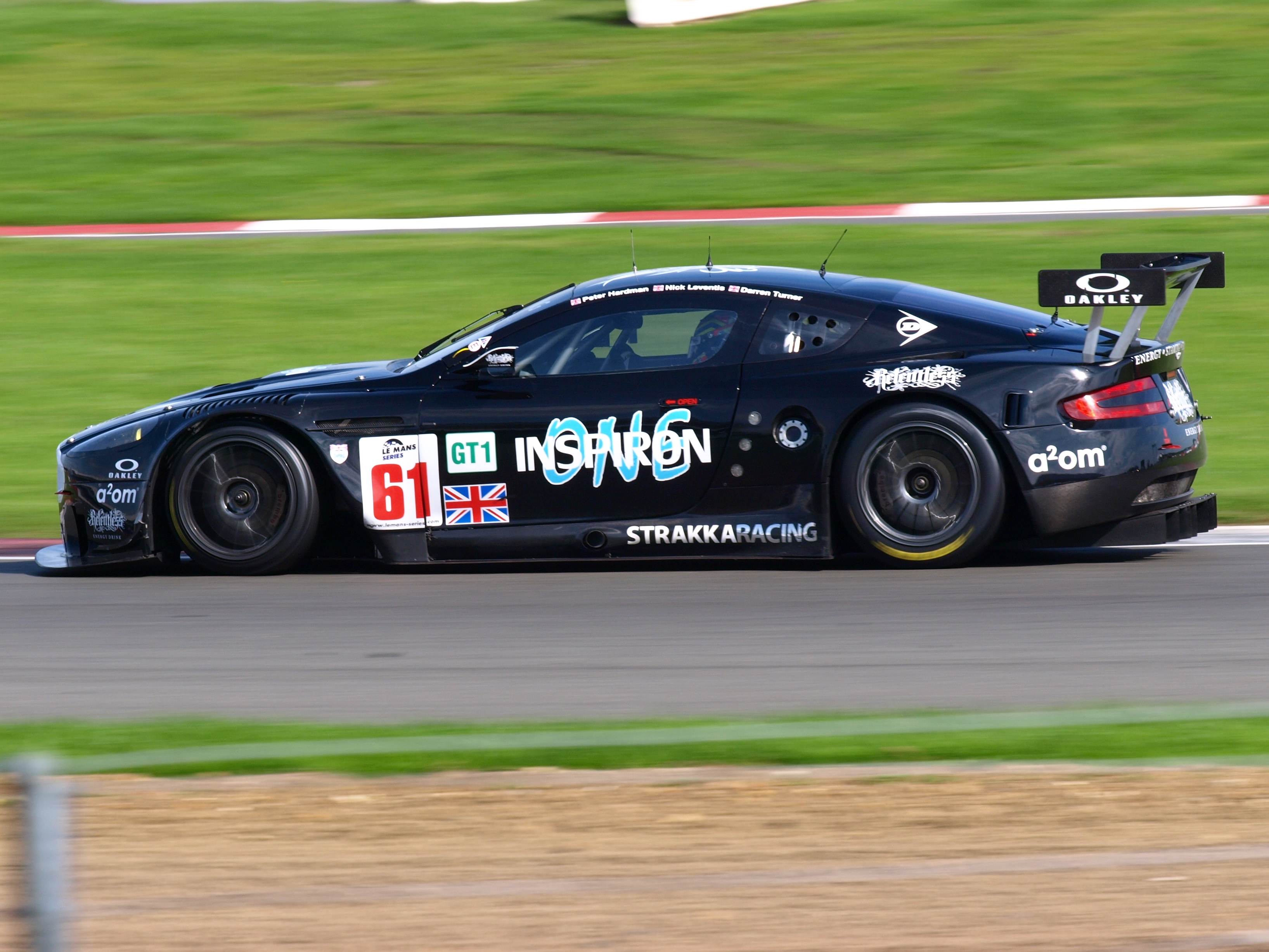 Peter Hardman driving Strakka Racing's Aston Martin DBR9 at the 2008 1000km of Silverstone